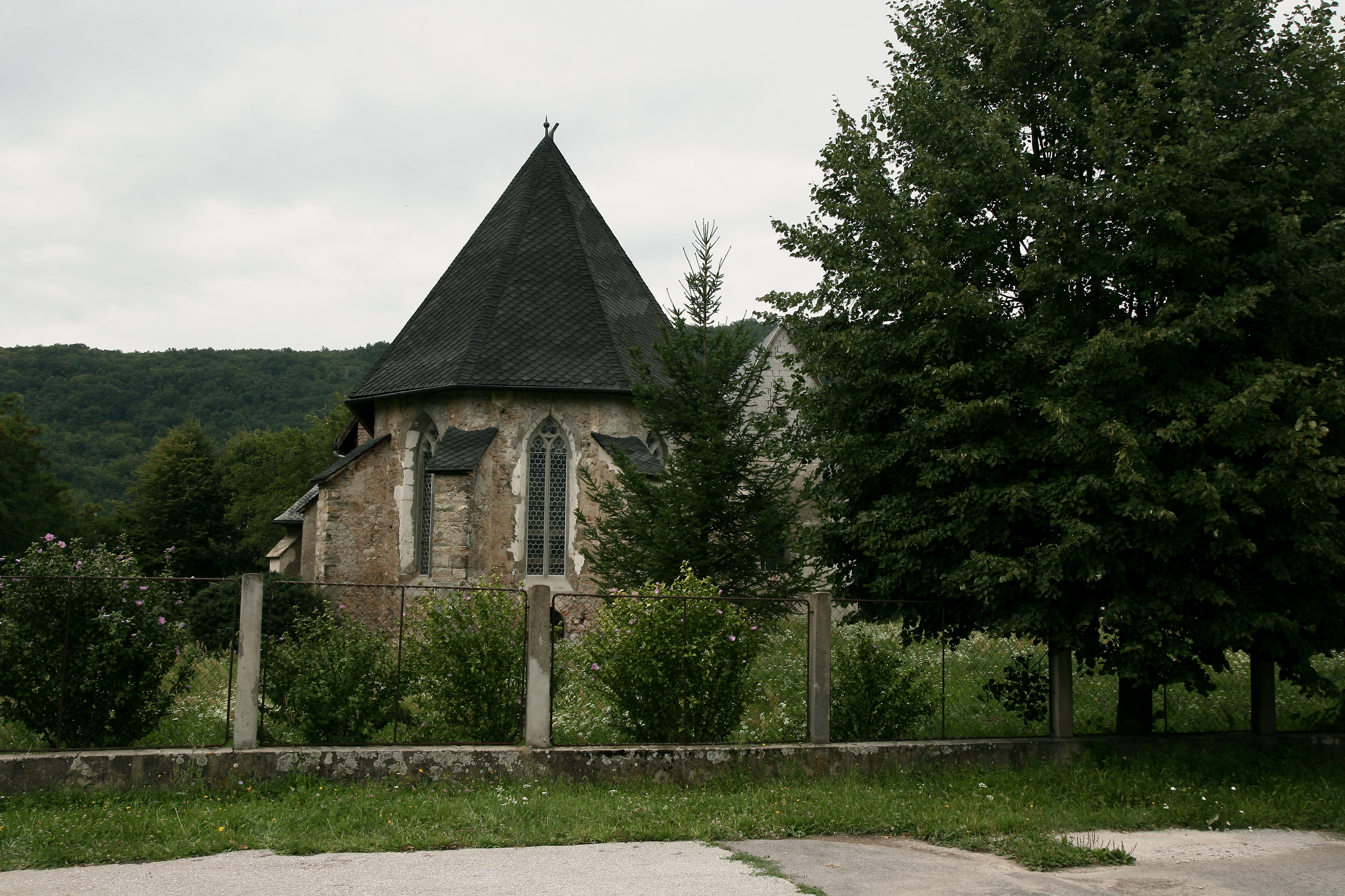 Gothic Reformed church in Plešivec, Slovakia.